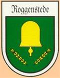 Coat of Arms of Roggenstede (Dornum)